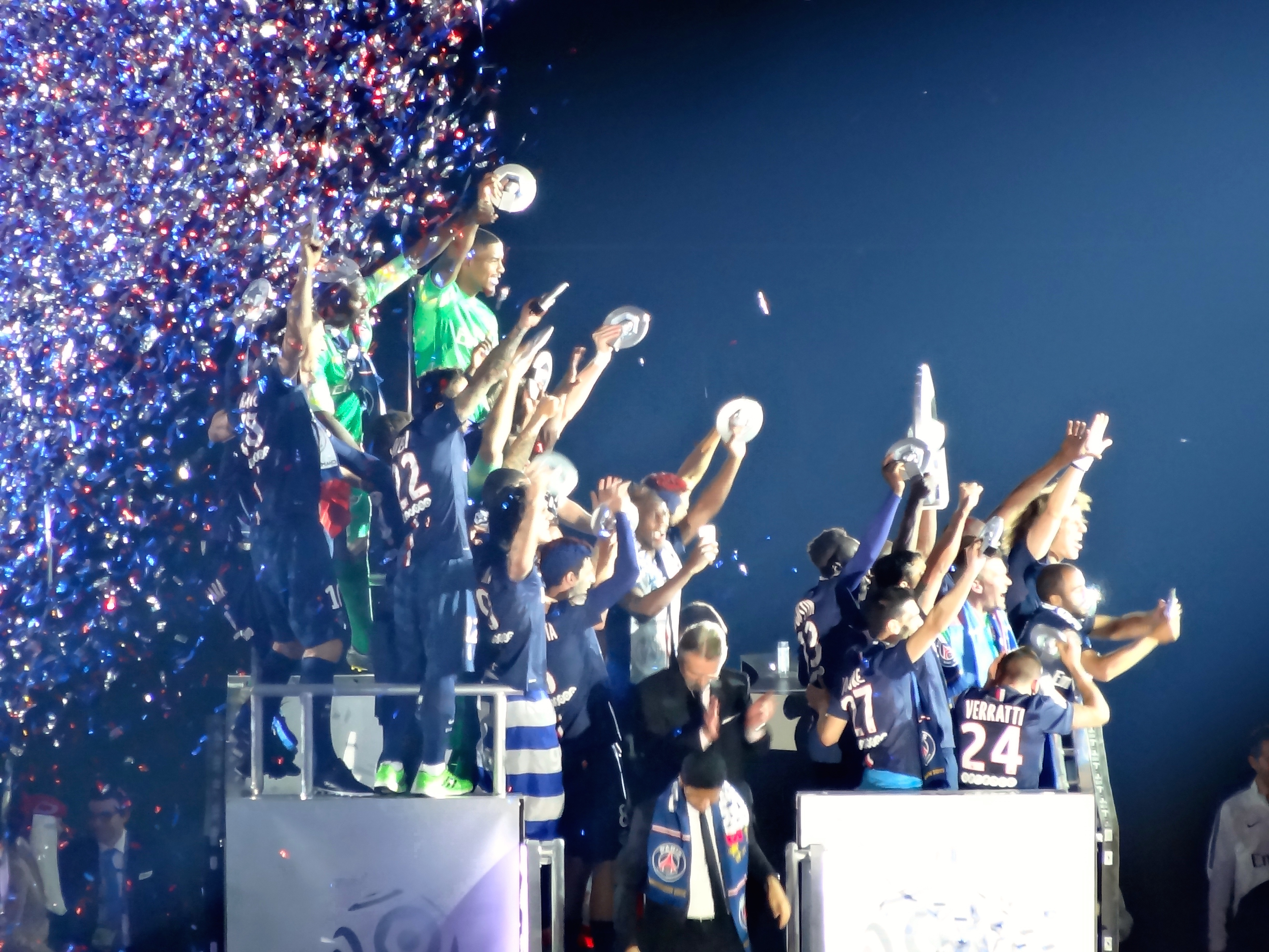 Paris Saint-Germain France champion 2014-2015